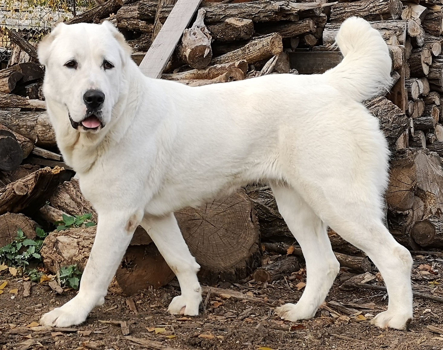 Central Asia Ovcharka dog (Alabai) in Hungary.